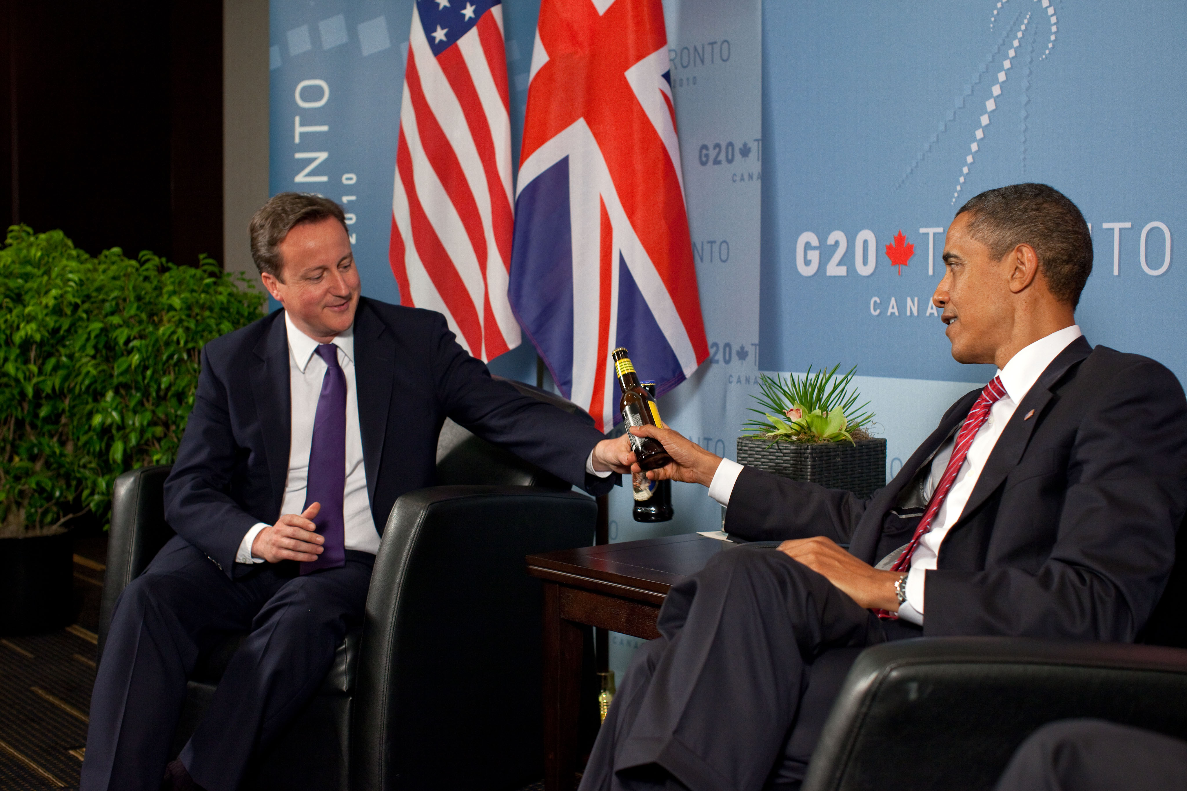 US President Barack Obama and British Prime Minister David Cameron trade bottles of beer to settle a bet they made on the U.S. vs. England World Cup Soccer game (which ended in a tie), during a bilateral meeting at the G20 Summit in Toronto, Canada, Saturday, June 26, 2010.